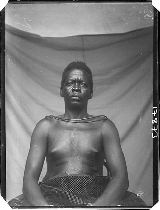 Chief Agho Obaseki (died September 9, 1920) was a paramount Chief in the Benin Empire